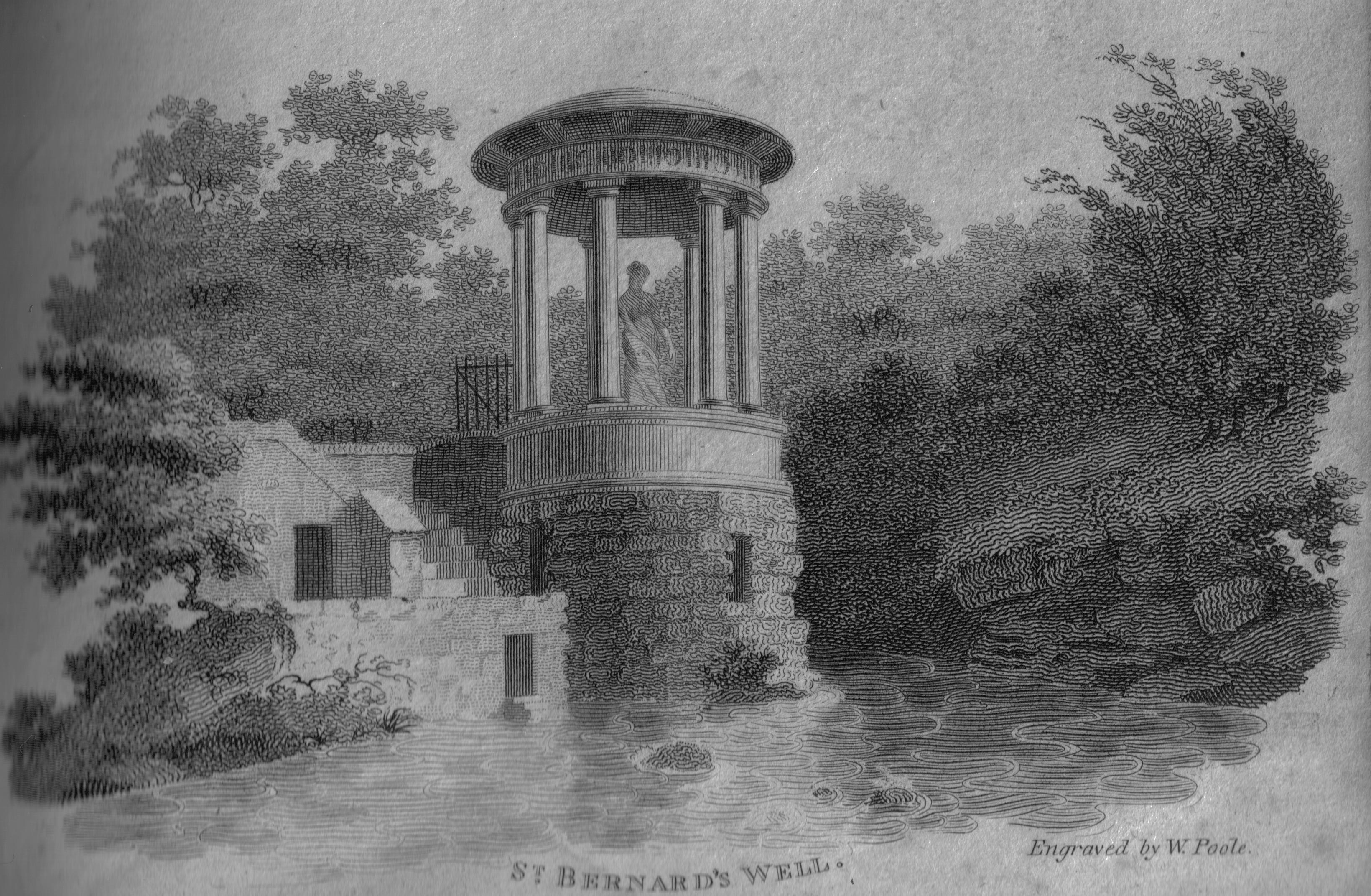 saint Bernard's Well, Stockbridge, Scotland.